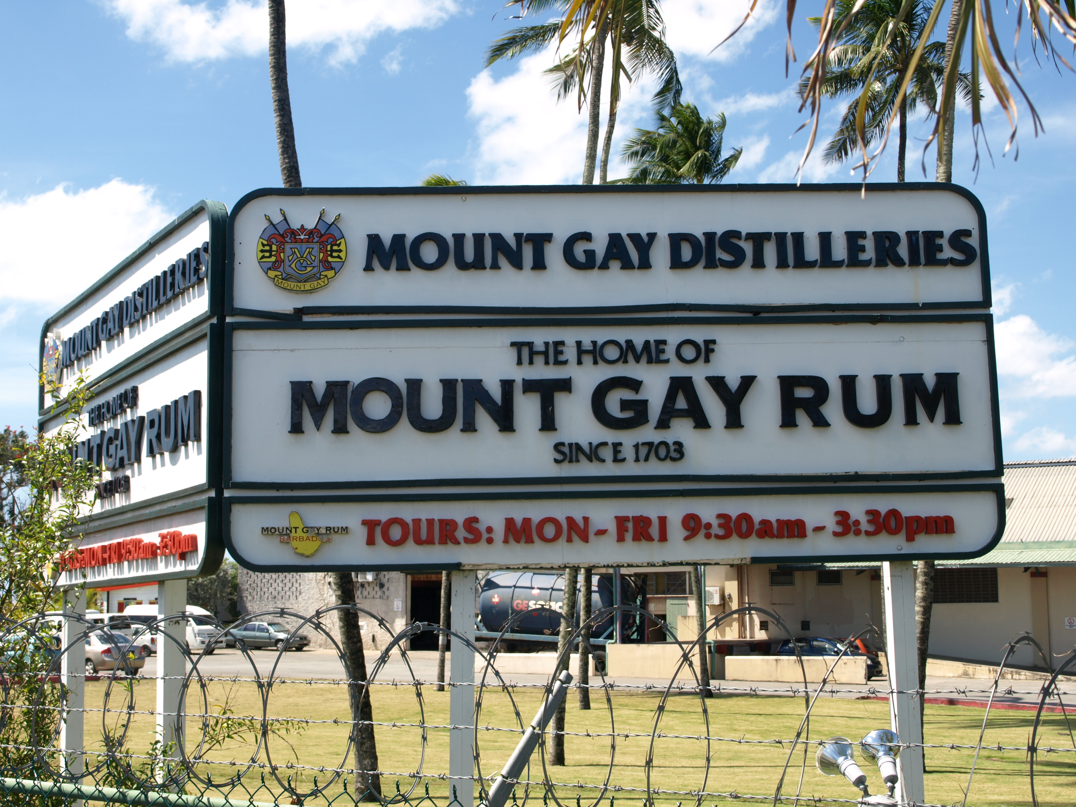 Picture of the sign in front of the Mount Gay Rum bottling plant and museum, Barbados.